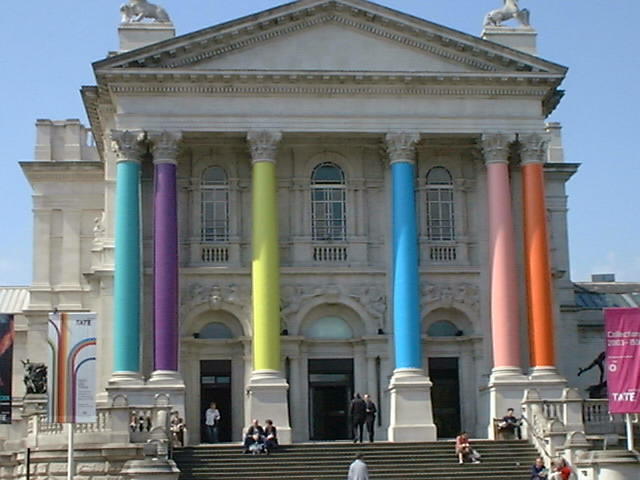 The Tate Britain, London draped for Days Like These an exhibition which "showcases British artists currently making an impact on the contemporary art scene". See the Gallery's page. (Dunno why I originally said this was for In-A-Gadda-Da-Vida an exhibition installation by Angus Fairhurst, Damien Hirst, and Sarah Lucas. See the Gallery's report. The dates are wrong!)